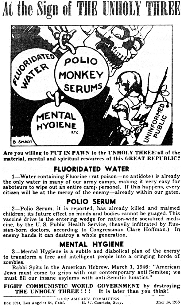 "At the Sign of the UNHOLY THREE", a flier first issued in 1955 to promote mental hygiene as a communist goal to destroy the U.S.A.